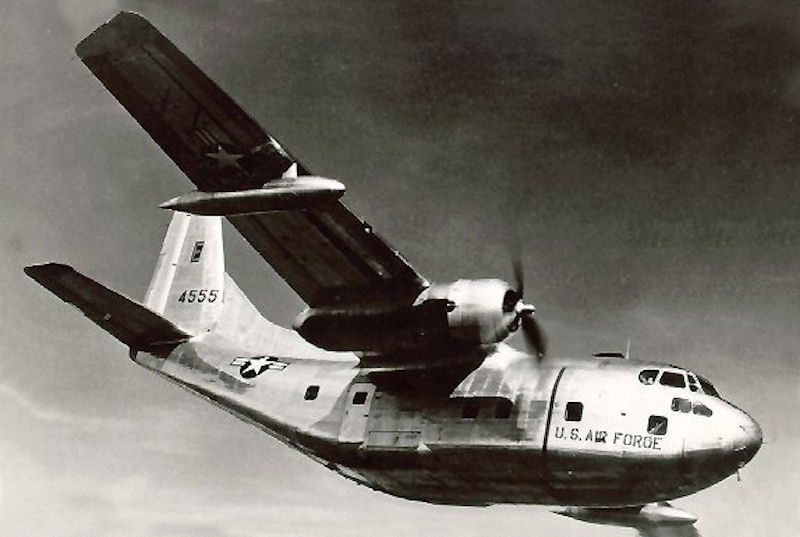 Fairchild C-123B-14-FA Provider 55-4555 (c/n 20216) Sold to Air Ameerica as 550 Mar 16, 1962, later N5007X and 555, returned to USAF Apr 28, 1967. Converted to C-123K Apr 26, 1968. Written off after crashing into a hill at Vang Vieng, Laos in bad weather Aug 27, 1972. 12 killed.